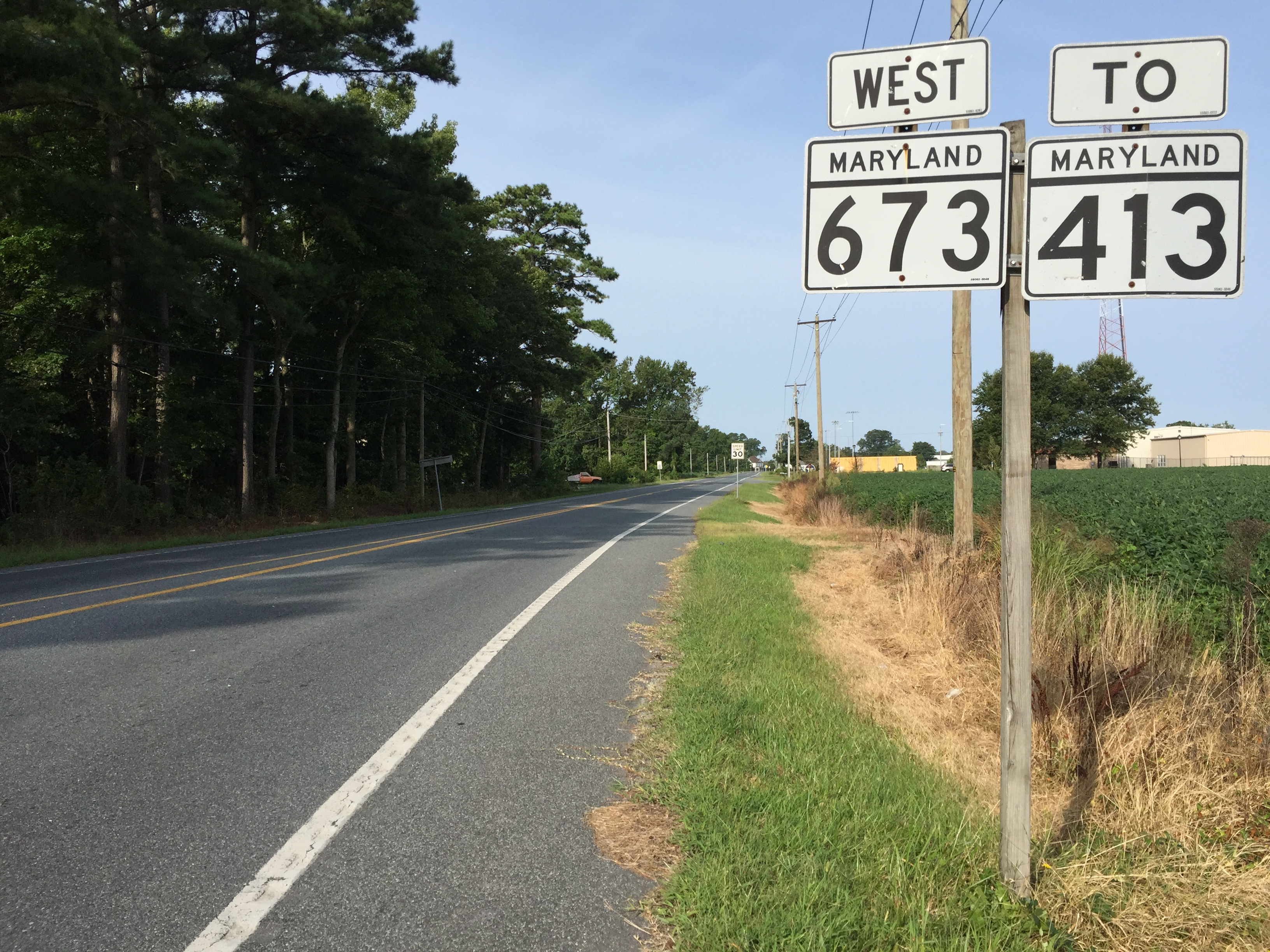 View west along Maryland State Route 673 (Sam Barnes Road) at U.S. Route 13 (Ocean Highway) in Westover, Somerset County, Maryland